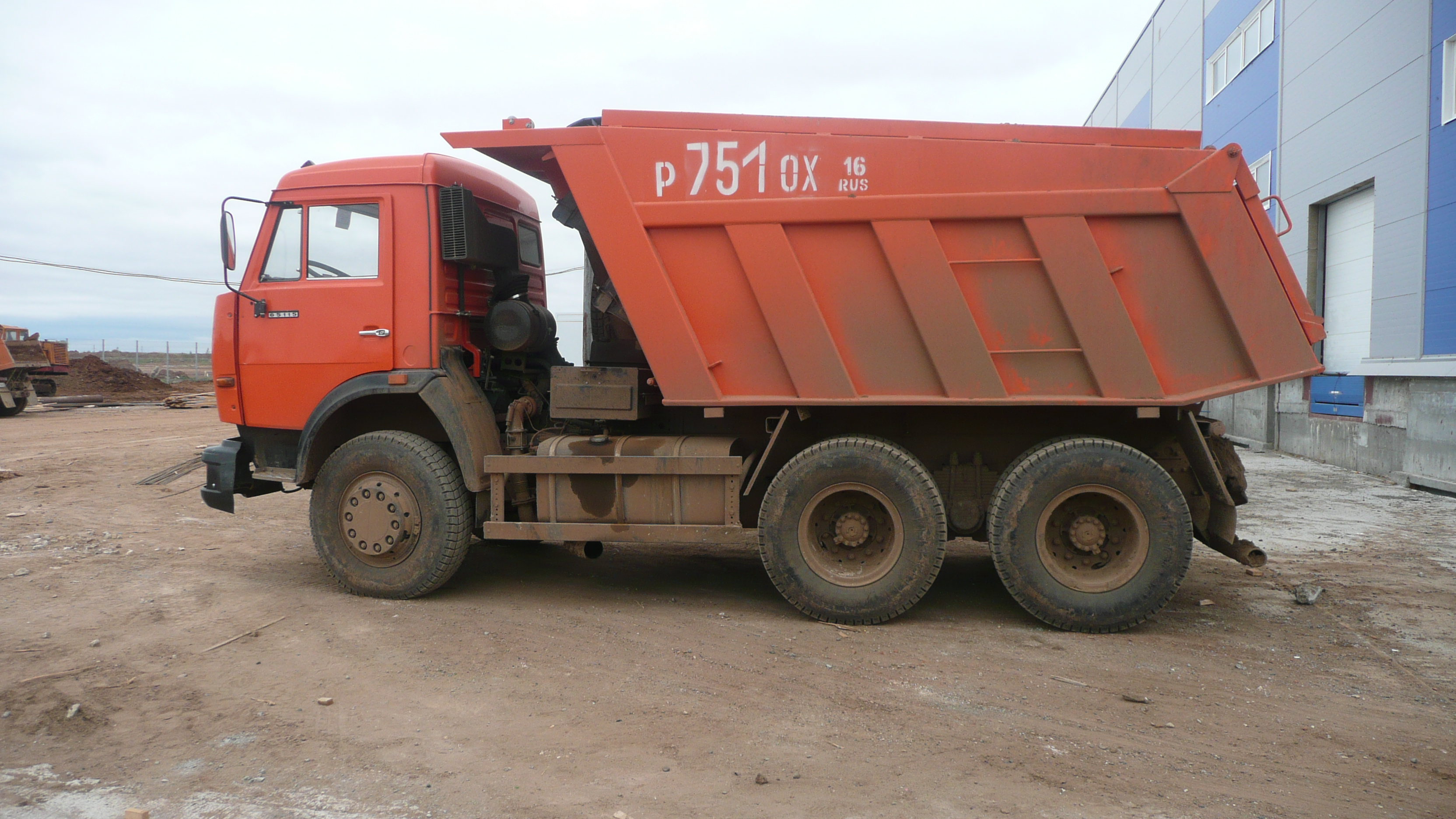 Kamaz vehicle 65115